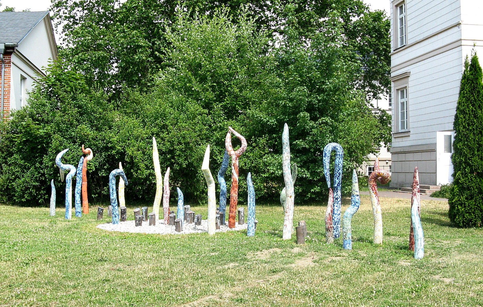 Memorial for the victims of the Nazi eugenics murders in the Flemming clinic in Schwerin, Germany, artist: Dörte Michaelis